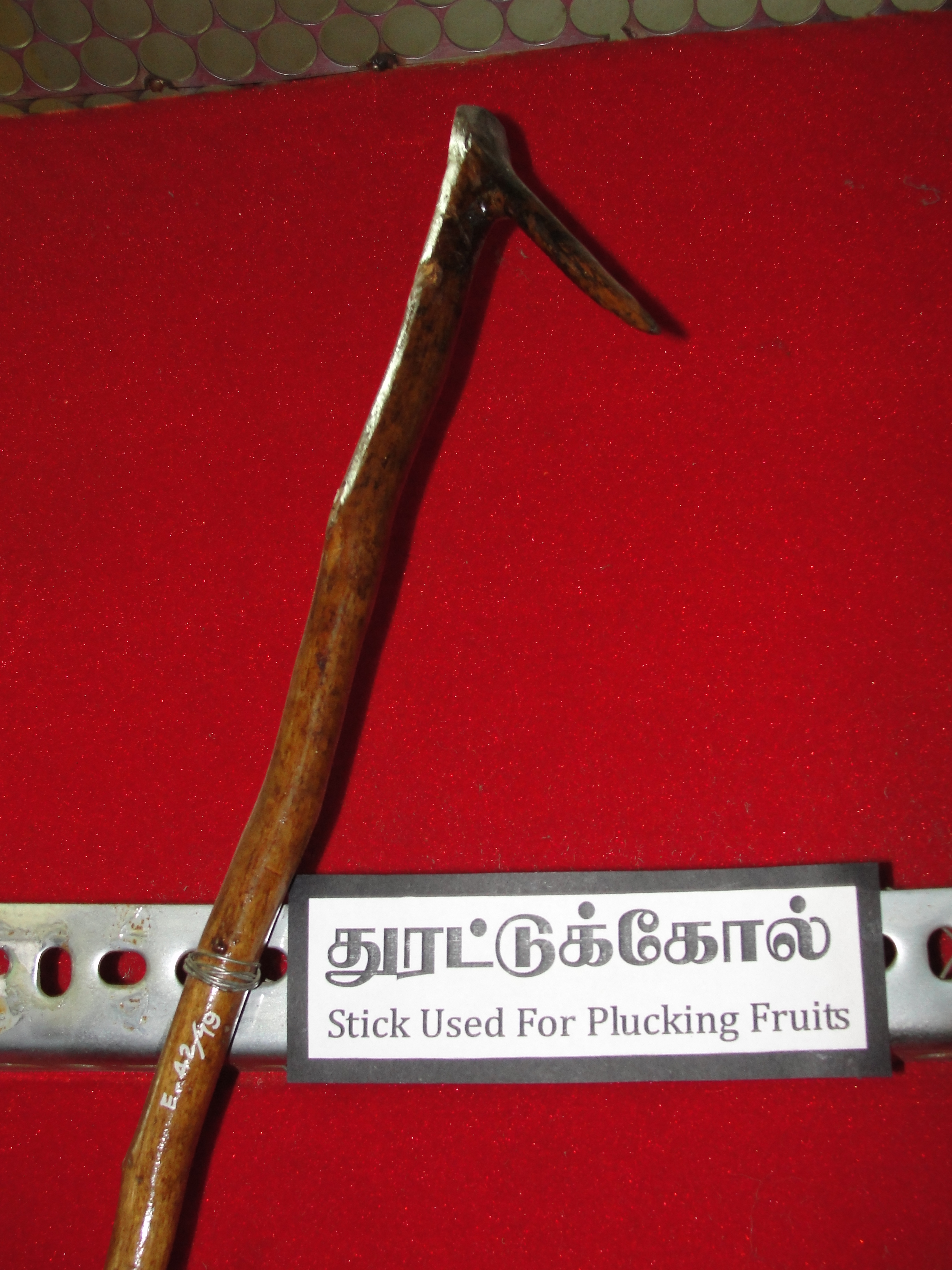 Location: Salem district museum, Tamil Nadu, India.